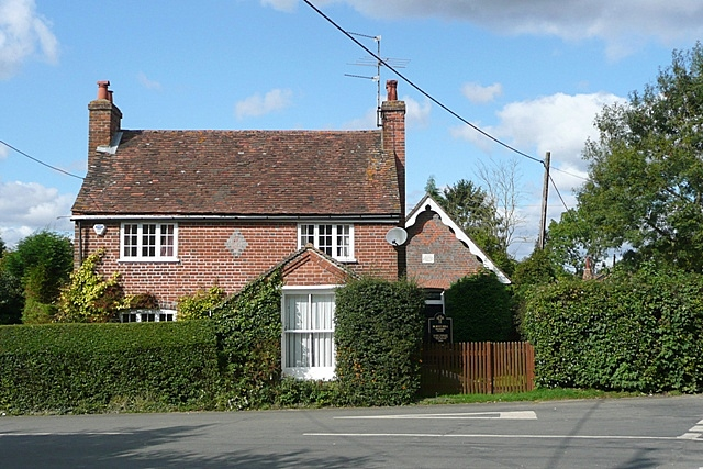 House (left) and Methodist Chapel (right) at Burnt Hill, Yattendon, Berkshire